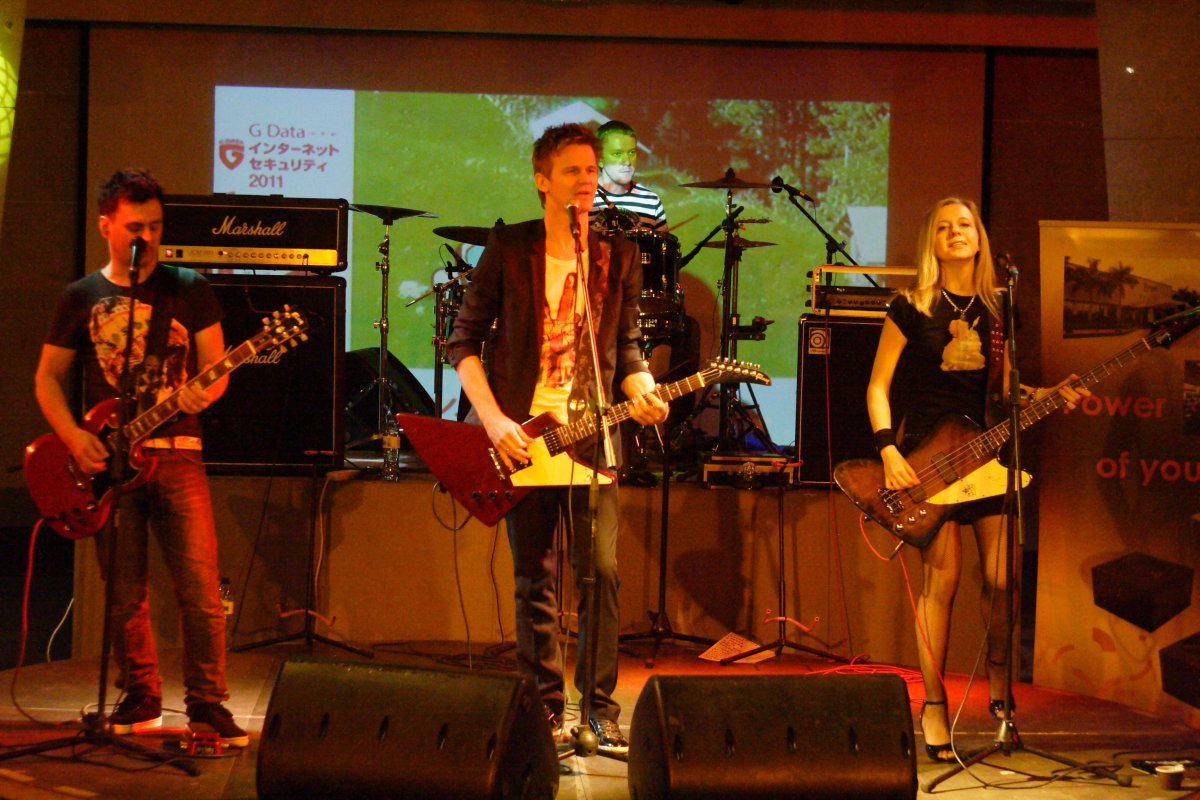 Russian punk super-group "Приключения Электроников" takes performance in Gorbushka, Moscow.